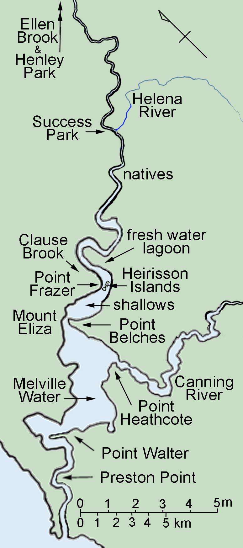 Author:Apuldram.